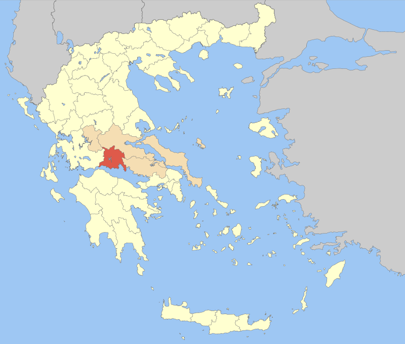 Locator map of Fokida (Phocis) prefecture (Νομός Φωκίδας) in Greece